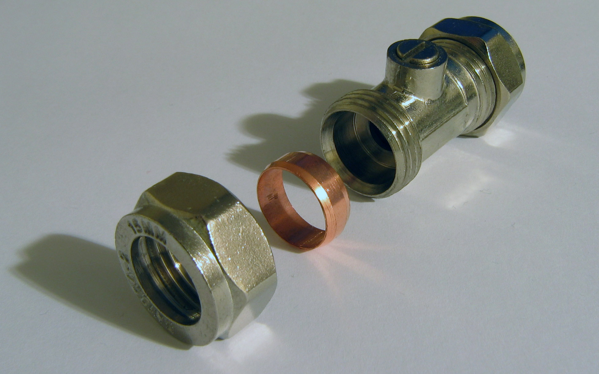 A compression fitting isolating valve, 15mm pipe diameter, screwdriver turn. Isolating valves are typically put before spurs, taps and suchlike. They make maintenance easier by removing the need to turn off and drain the plumbing system before work is carried out.